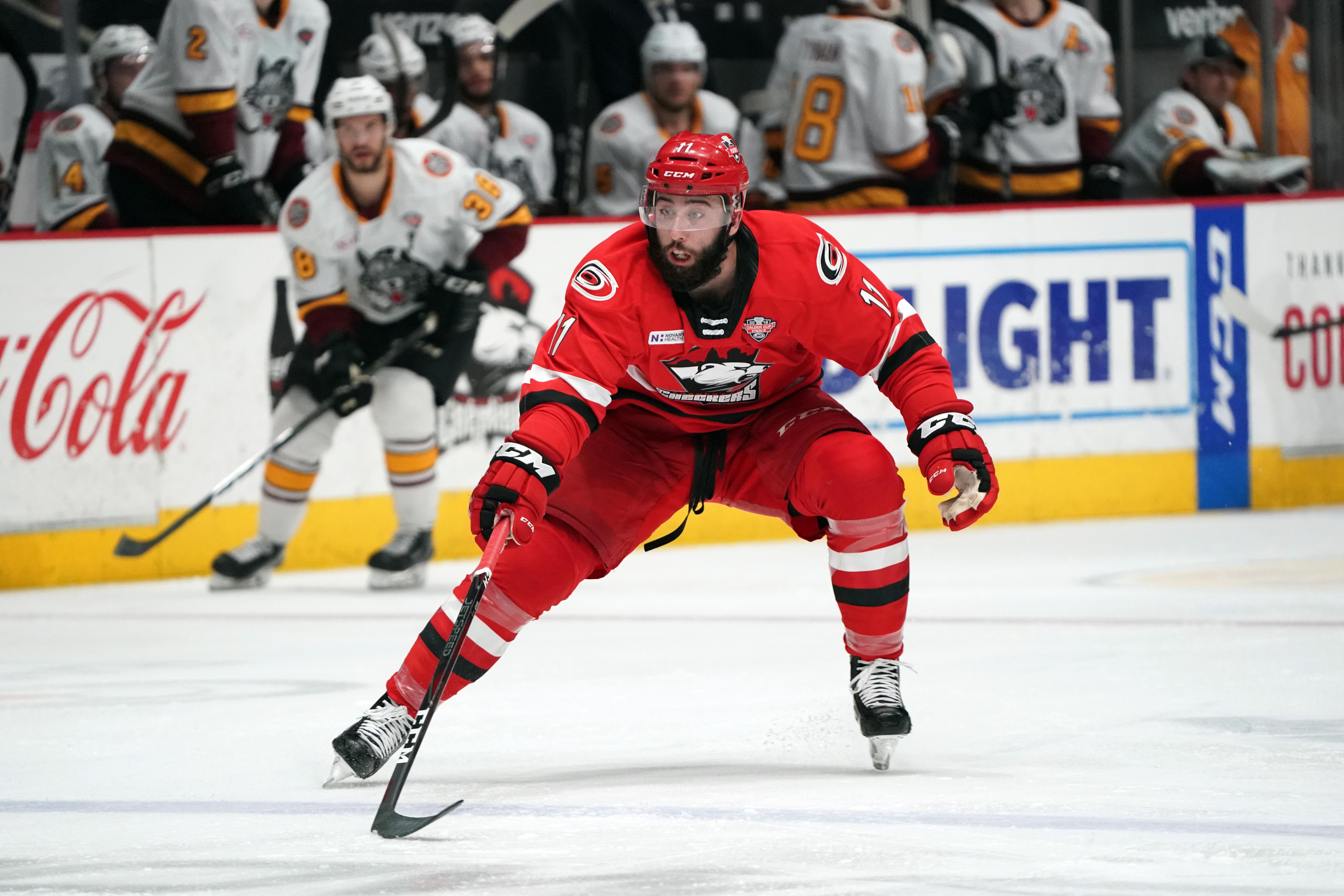 Photo: Gregg Forwerck